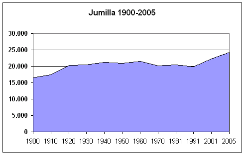 Jumilla's population, Murcia, Spain, (1900-2005). Own work, given to PD. Source: Instituto Nacional de Estadística.